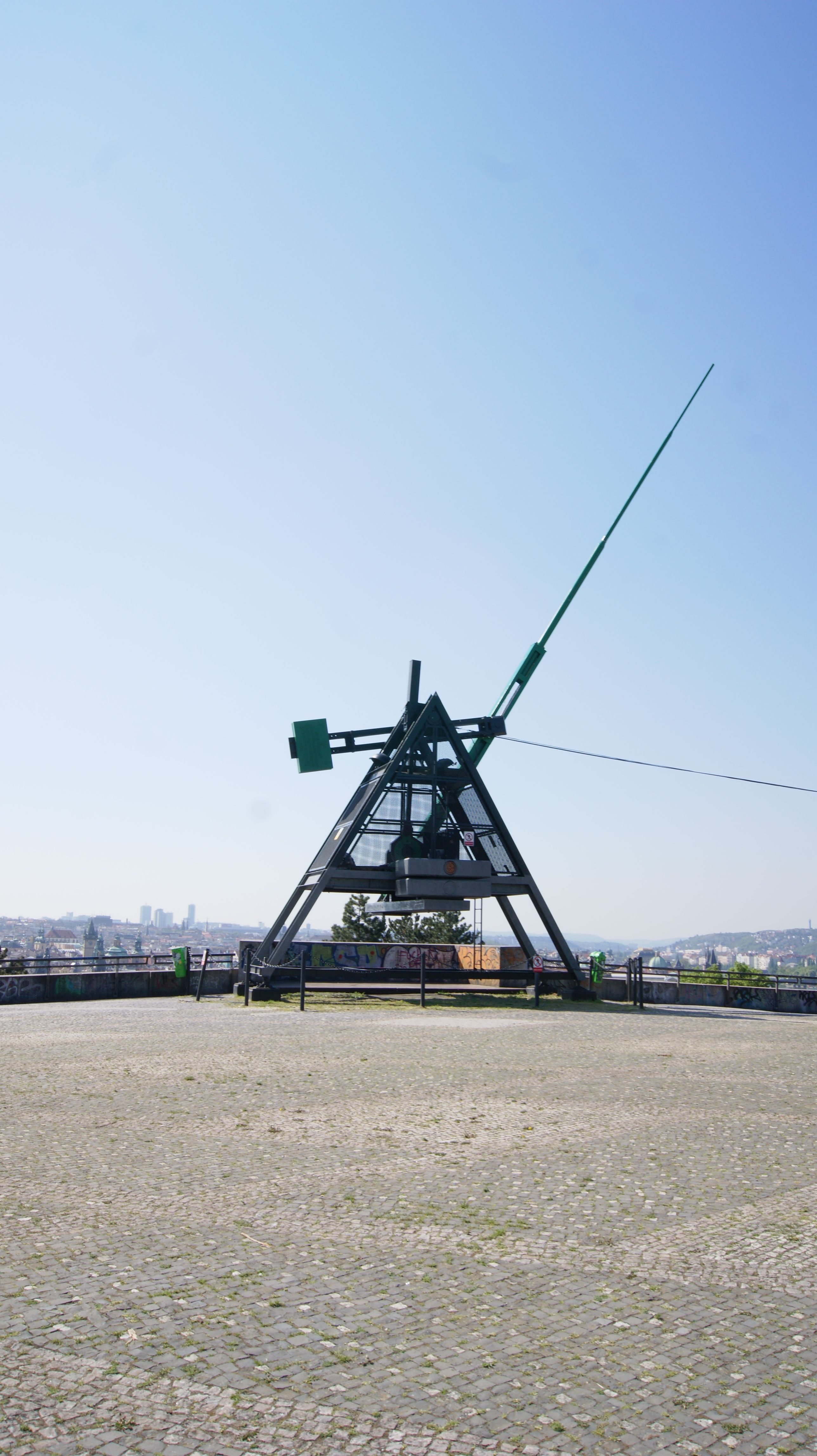 Prague Metronom (2016). This large Metronome replaced a massive statue of Stalin (1962 the order was given for its demolition).